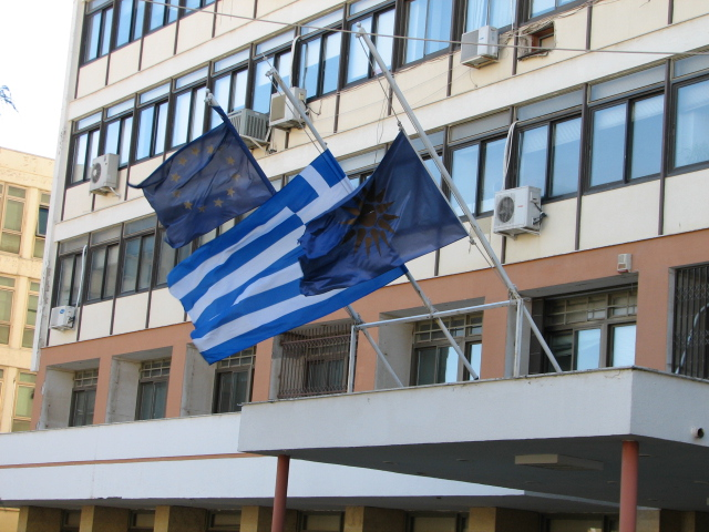 Megistias is the creator of this work.